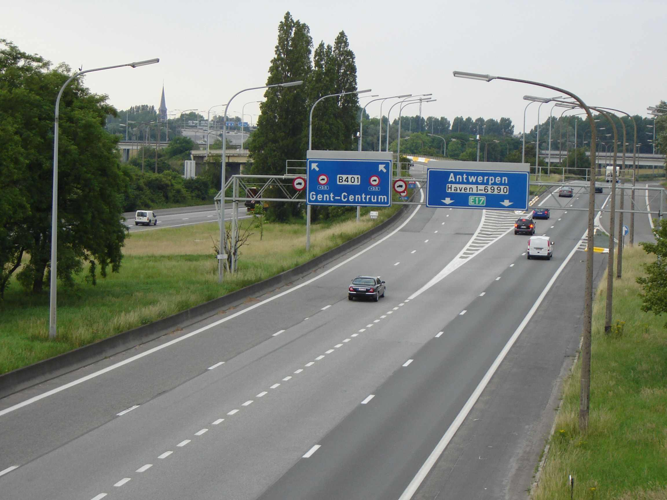 Beginning of B401 link road. B401 splits of from A14/E17 at interchange Gent-Centrum. The main axis of the E17 is just visible on the left (the road with the white van). Central in the picture is the Collector/distributor road used for the exit Gent-UZ, the junction with the B401 and access to the B401 and E17. The bridge in the distance at the left is the B401 entering Gent. (The church of Ledeberg can be seen). Image taken from the bridge with the Corneel Heymanslaan.